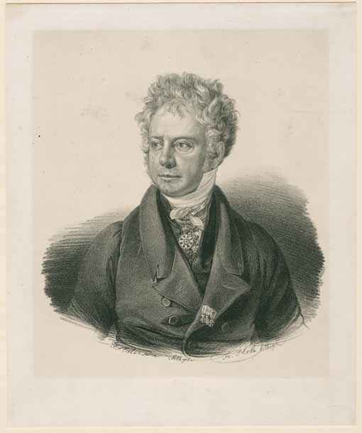 German scientific instrument maker Georg Friedrich von Reichenbach (21 July 1771 – 21 May 1826).